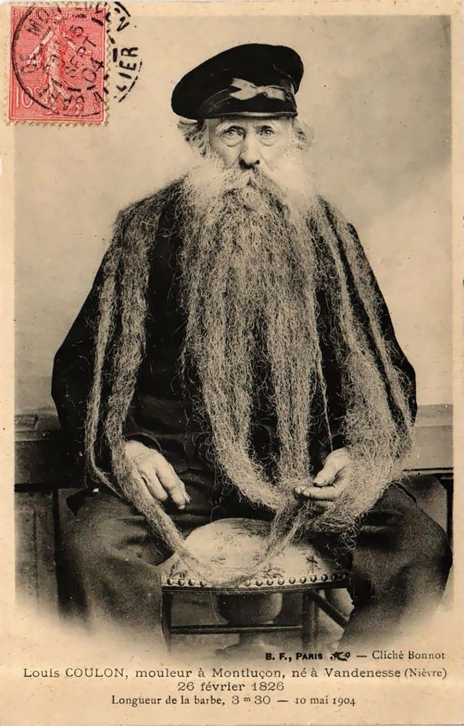 French postcard showing Lois Coulon